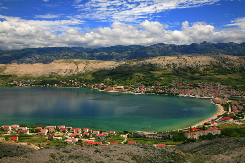 Croatia Pag town